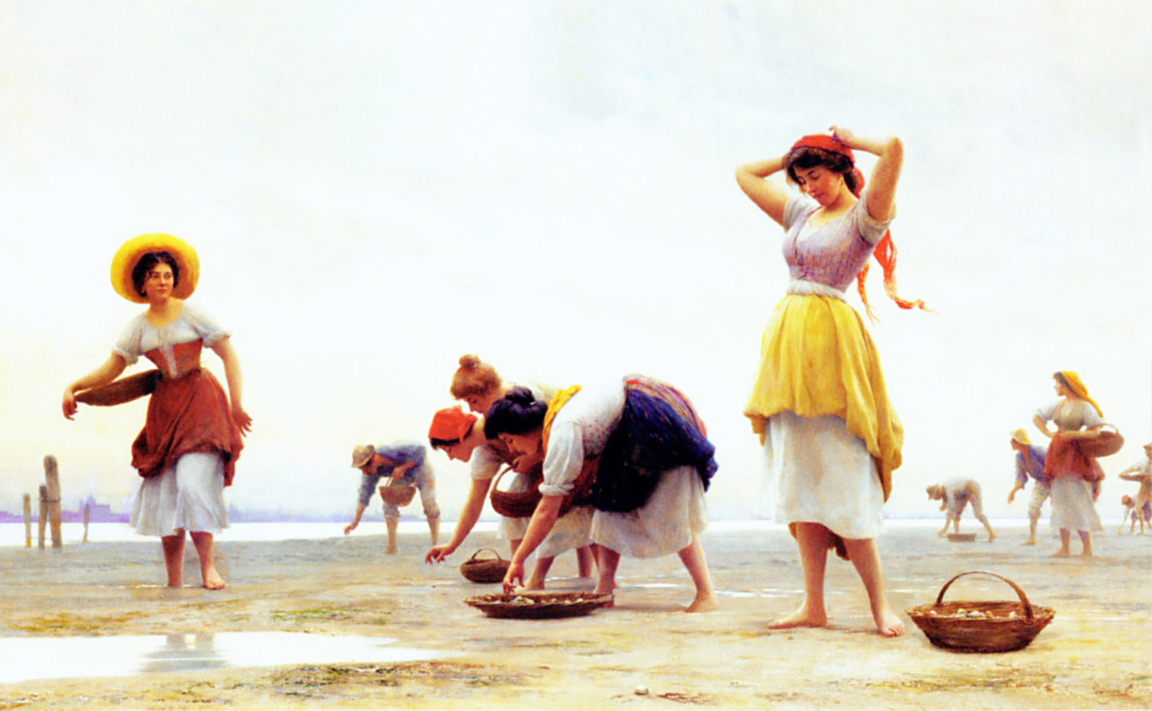 The Mussel Gatherers